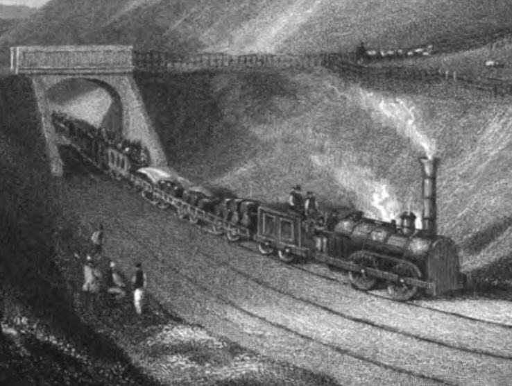 Crop of File:The Cowran Cut.jpg showing Newcastle and Carlisle Railway train